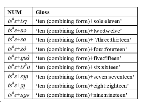 compound number system in ersu 10-19